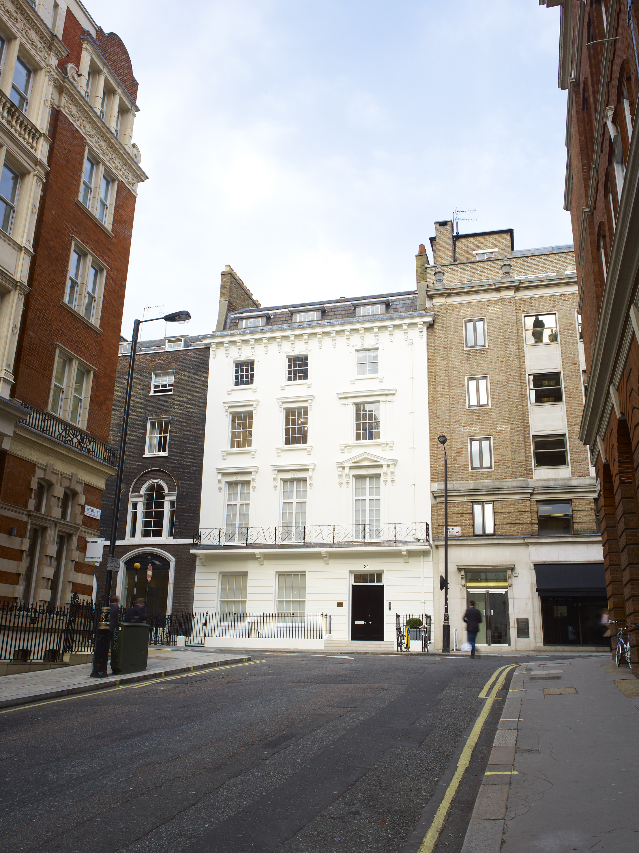 Image of the exterior of David Zwirner, London. Located at 24 Grafton Street, Mayfair.